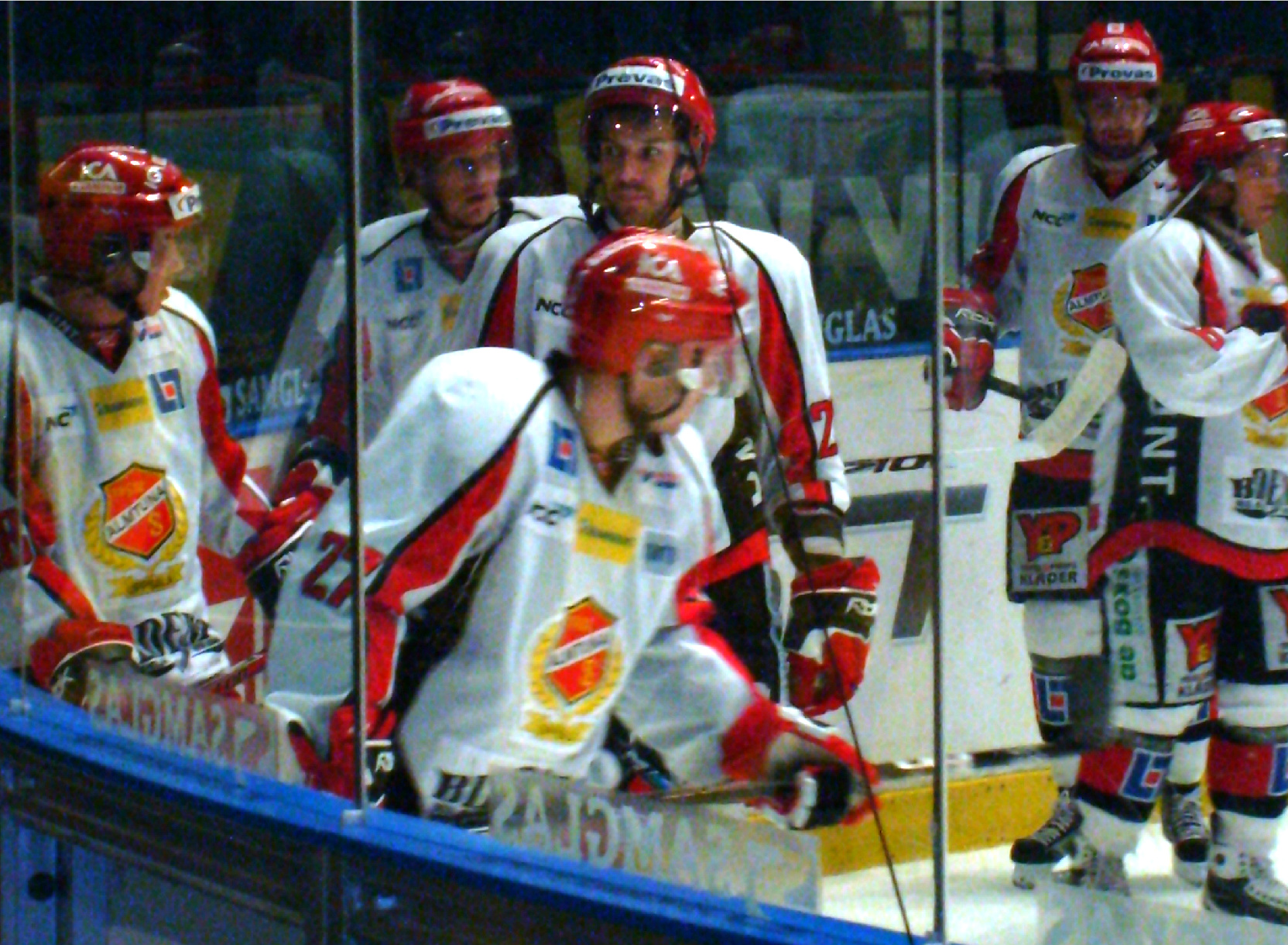 Ice hockey players from Almtuna IS, Uppsala, Sweden.